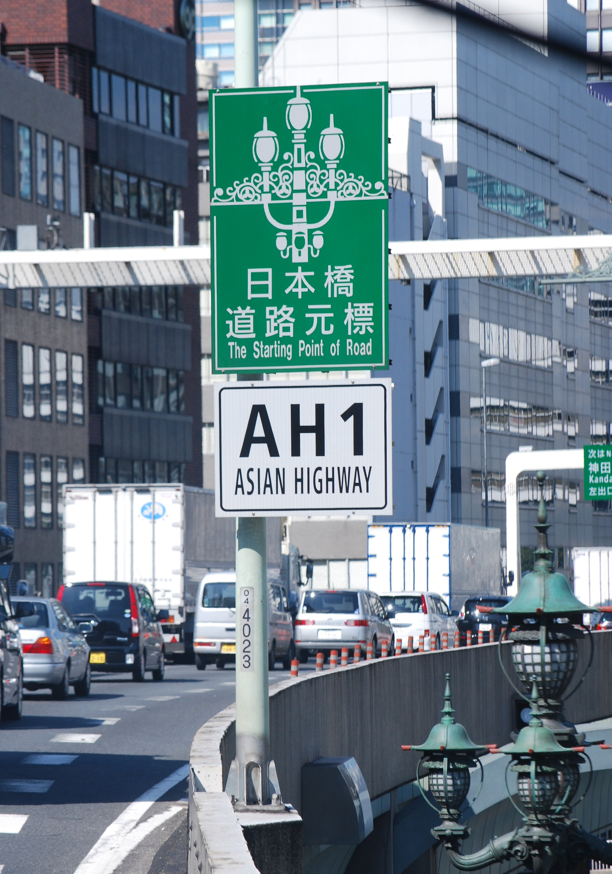 The starting point of Asian highway Route 1,Chuo-city,Tokyo,Japan.